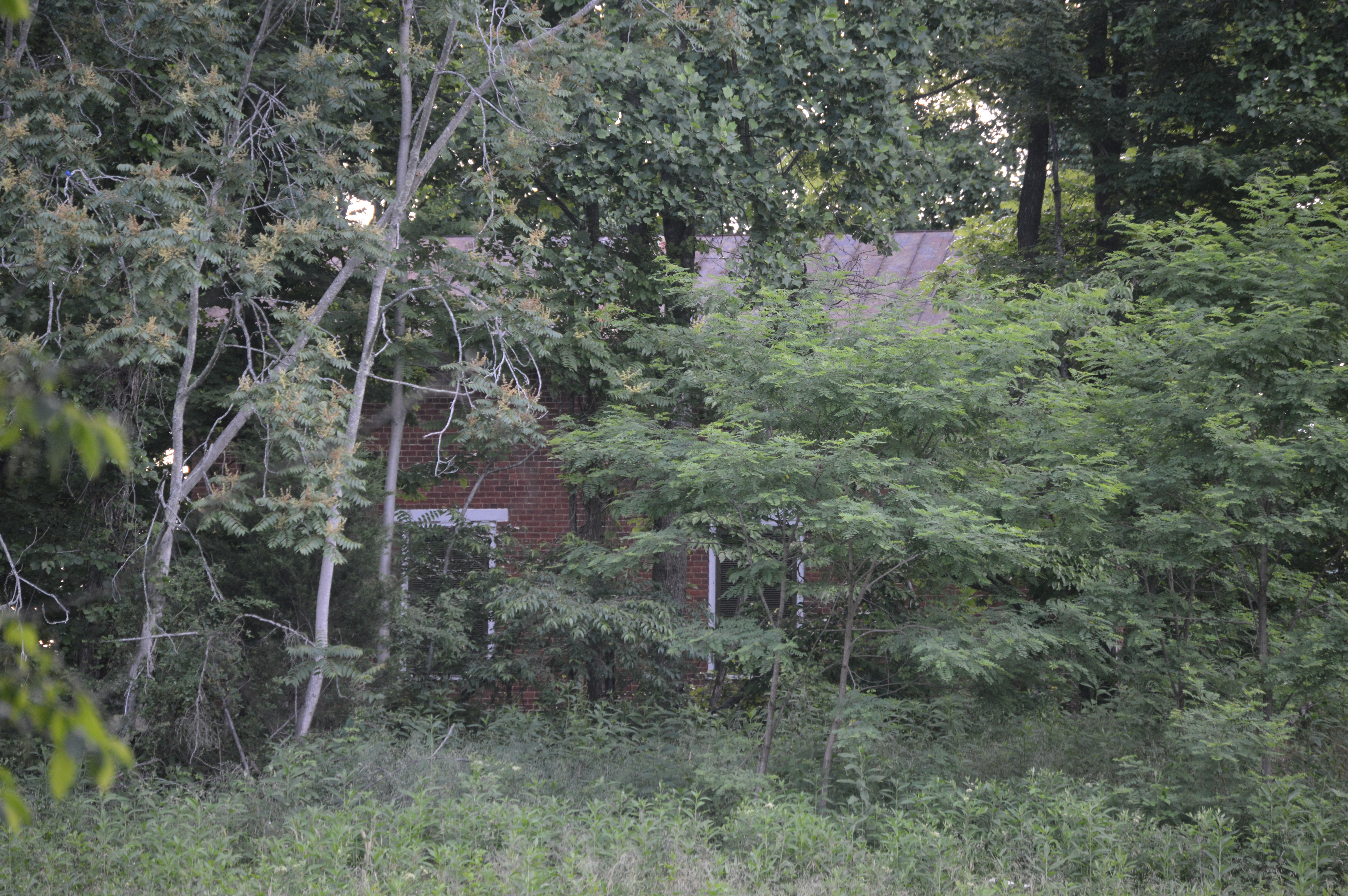 Through-the-trees view of the former Thomas Methodist Episcopal Chapel, located on Penicks Mill Road north of Thaxton in Bedford County, Virginia, United States. Built in 1844, it is listed on the National Register of Historic Places.